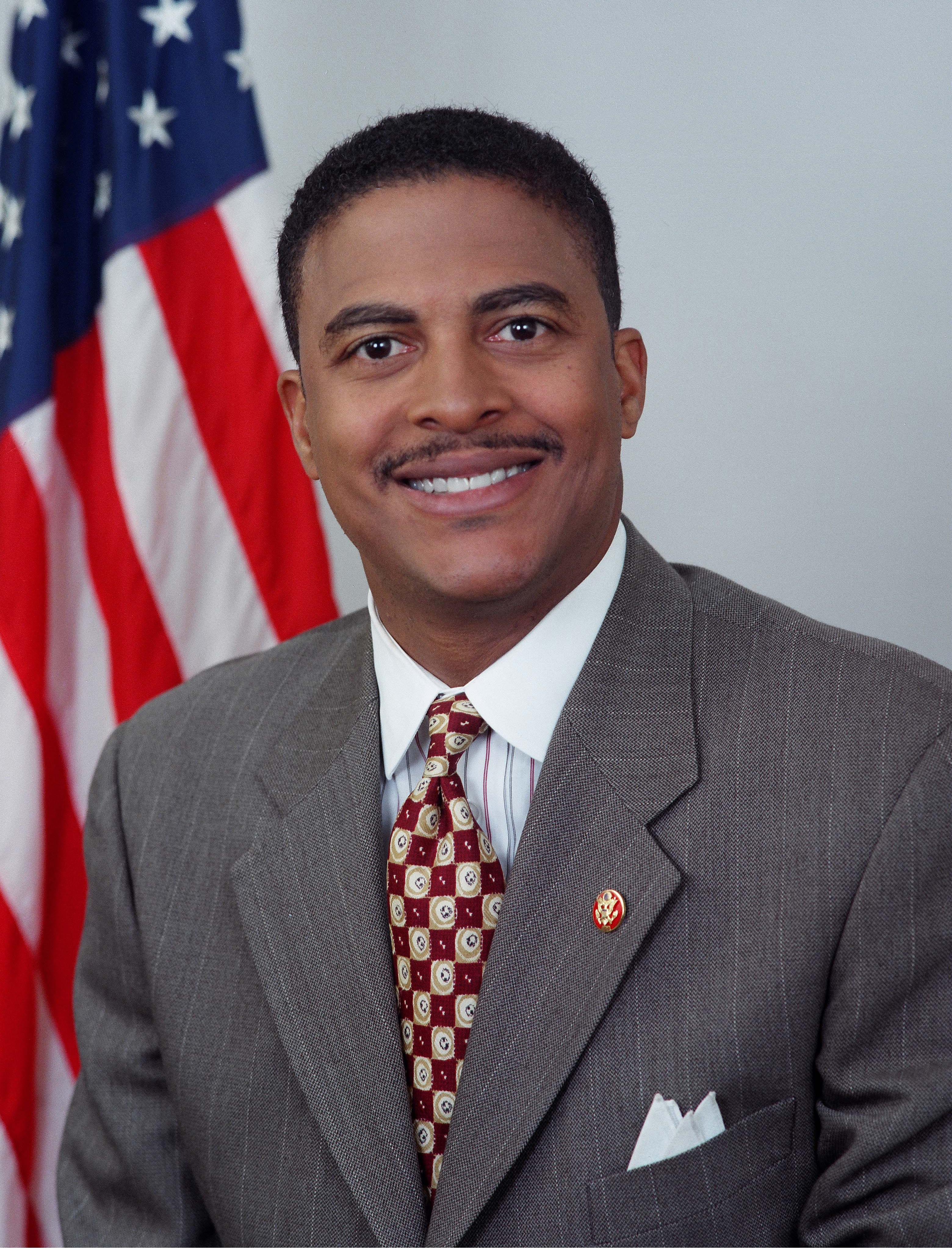 Walter R. Tucker III, member of the United States House of Representatives.